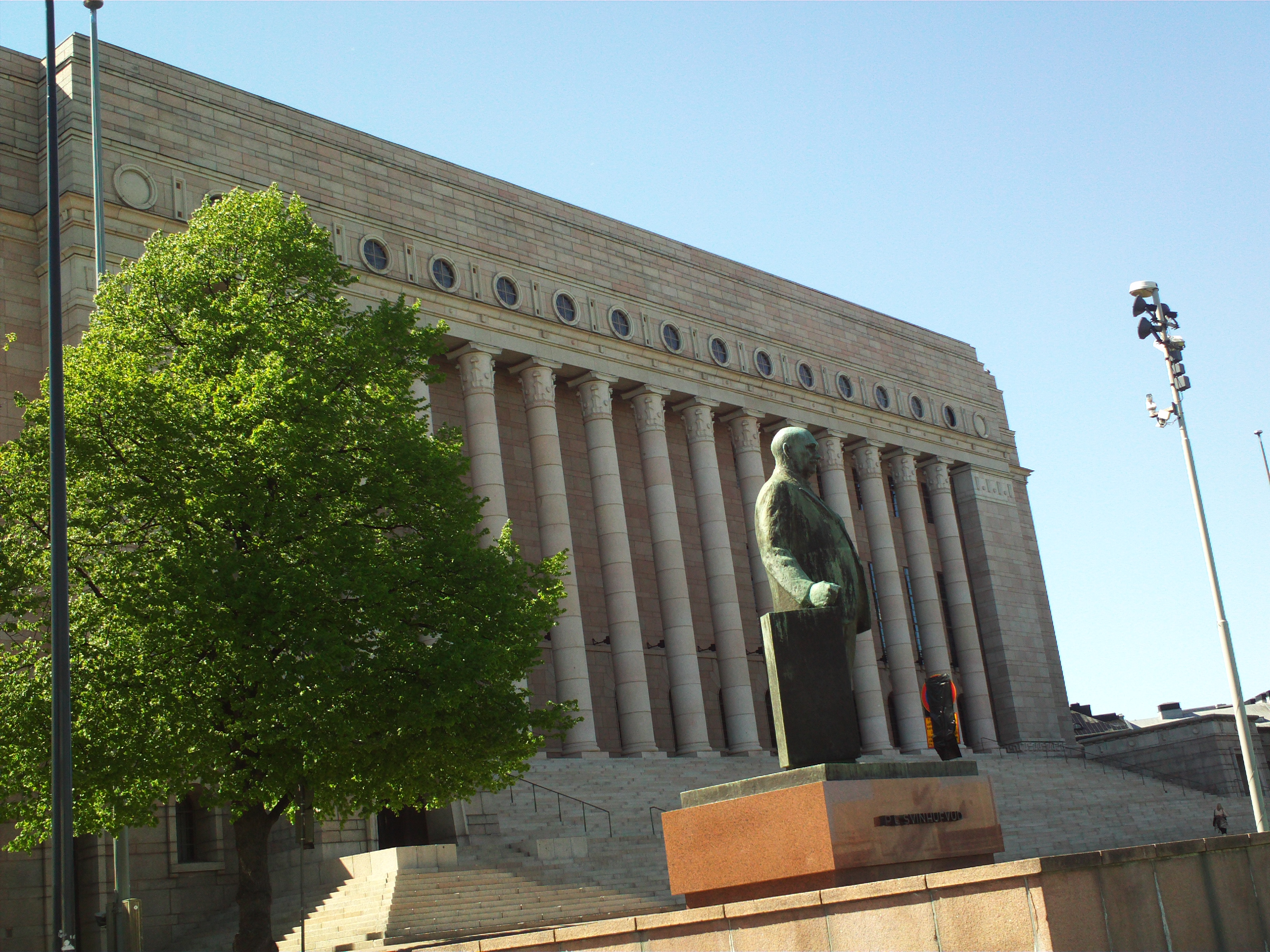 Eduskunta, Finnish parliament. And the statue of Pehr Evind Svinhufvud, Chairman of the Finnish senate in 1917-18 and President of the republic 1931-37, Helsinki.